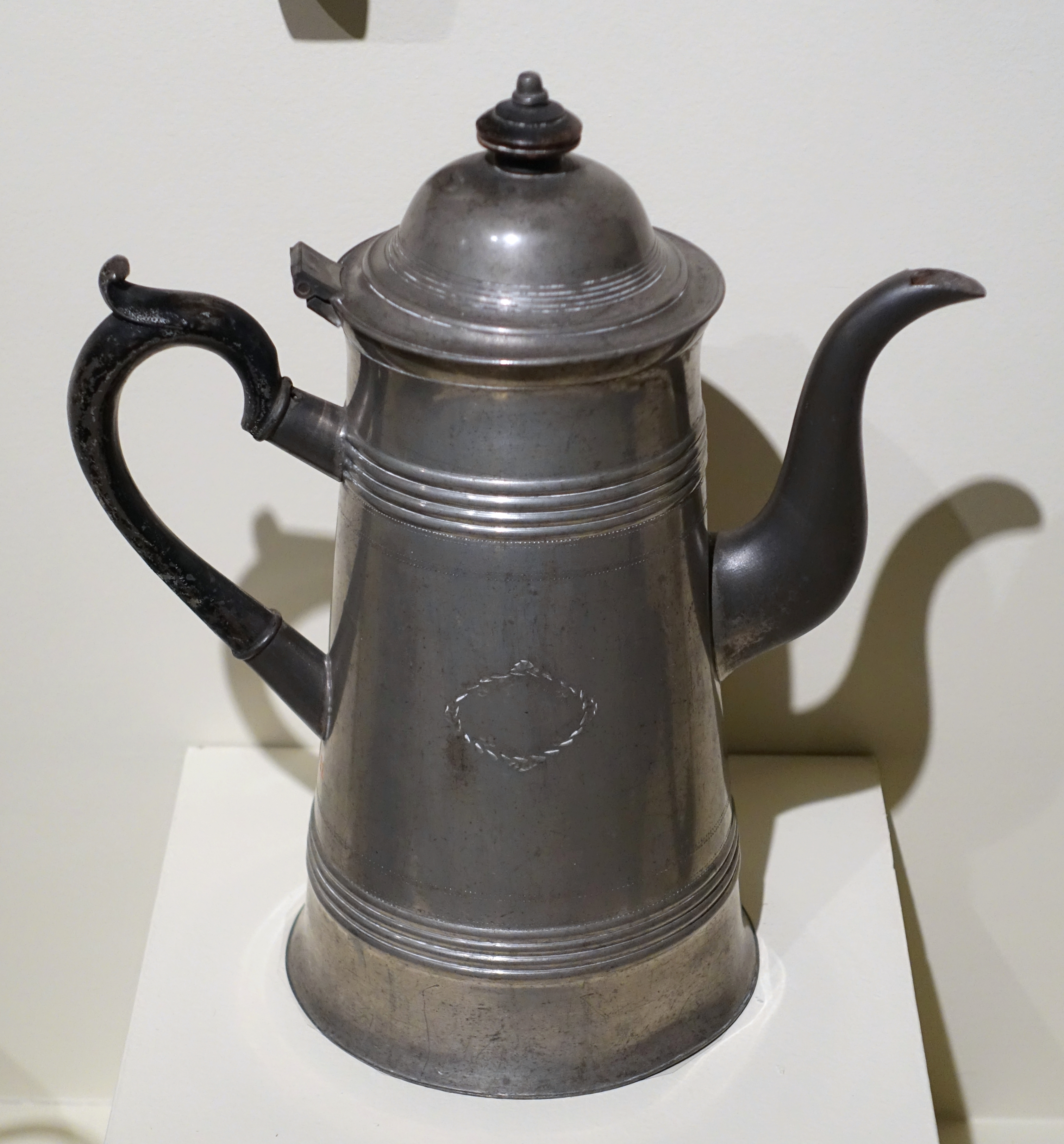 Exhibit in the Concord Museum, Concord, Massachusetts, USA.